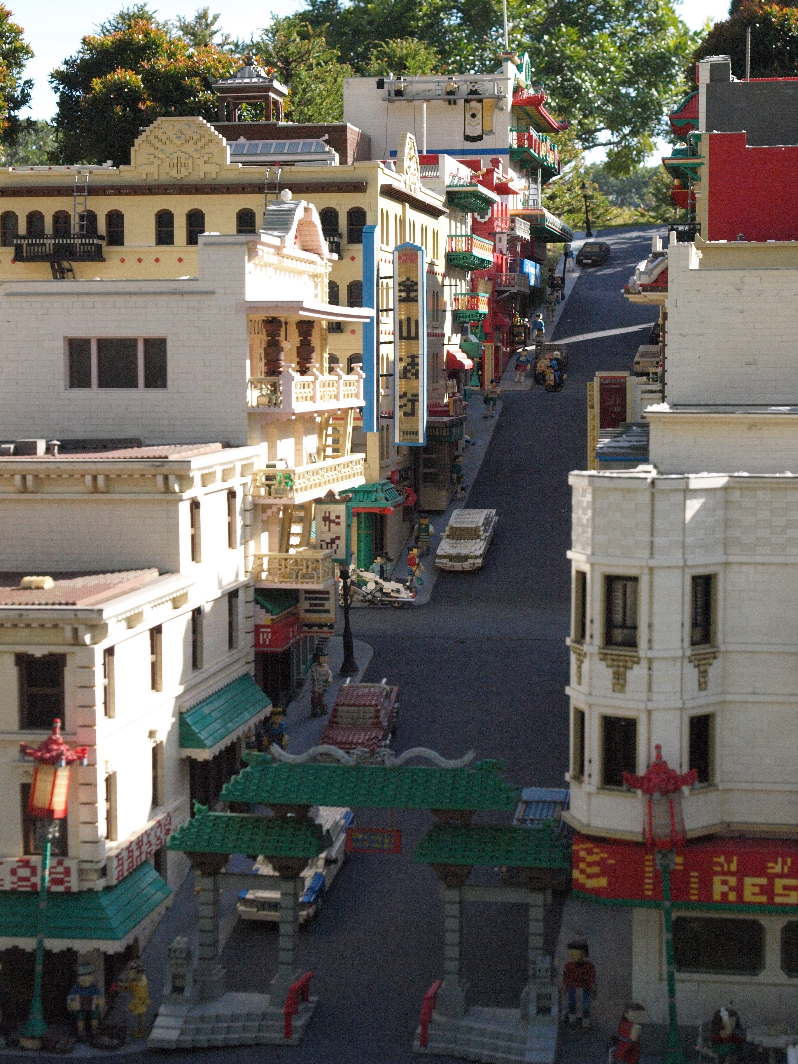 San Francisco's Grant Street and its welcome gate at Legoland California.